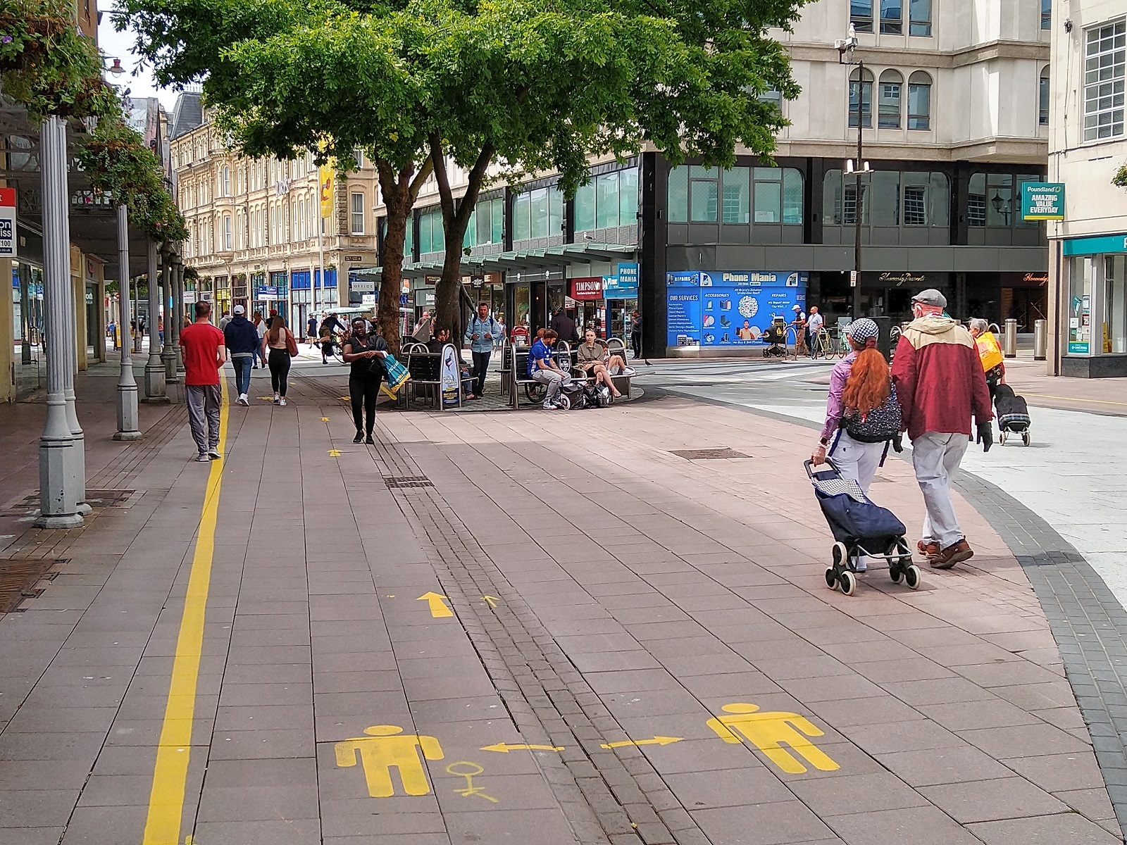 Non essential shops were allowed to re-open in Wales on 22 June 2020. Cardiff Council introduced social distancing measures, including one-way pedestrian lanes, along Queen Street